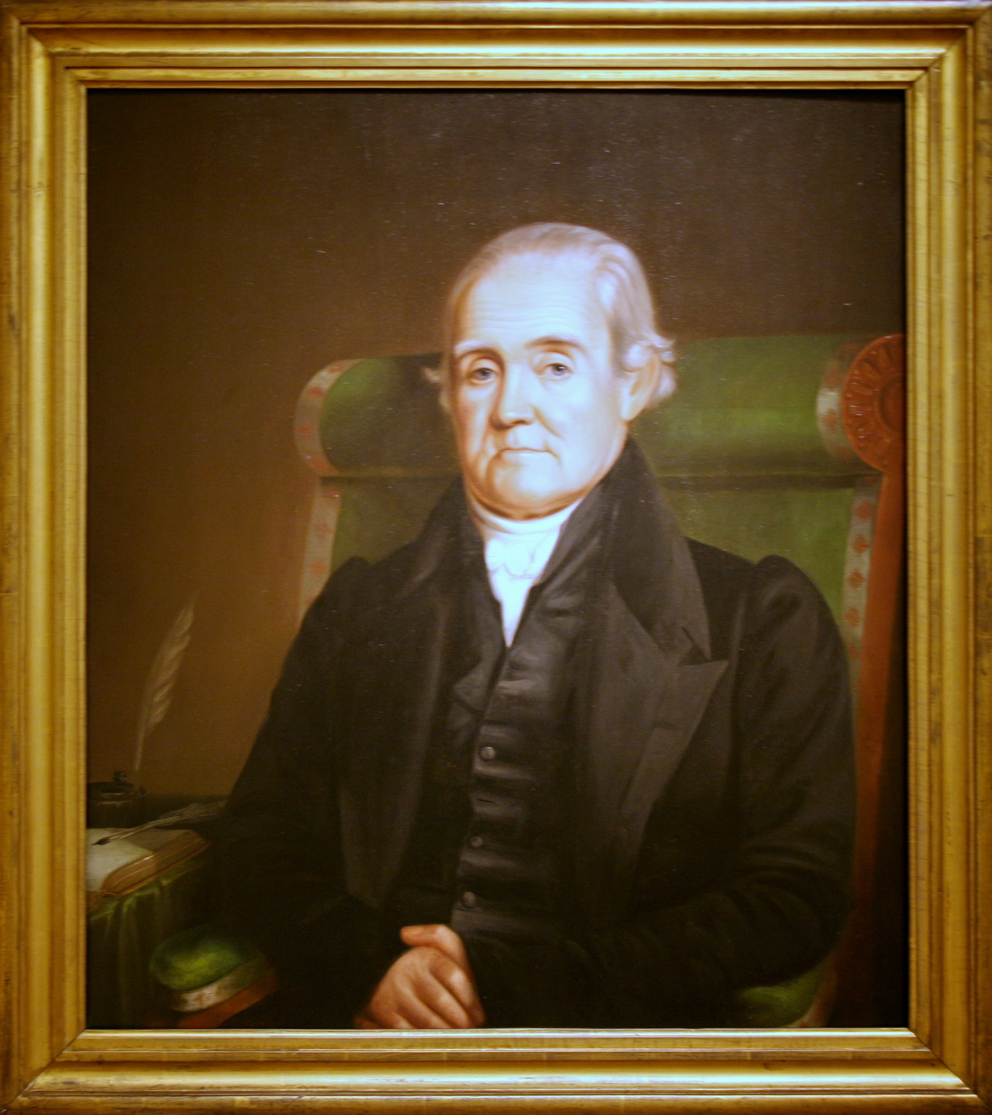 Oil on canvas portrait of Noah Webster; original size without frame 81.3×69.9 cm.